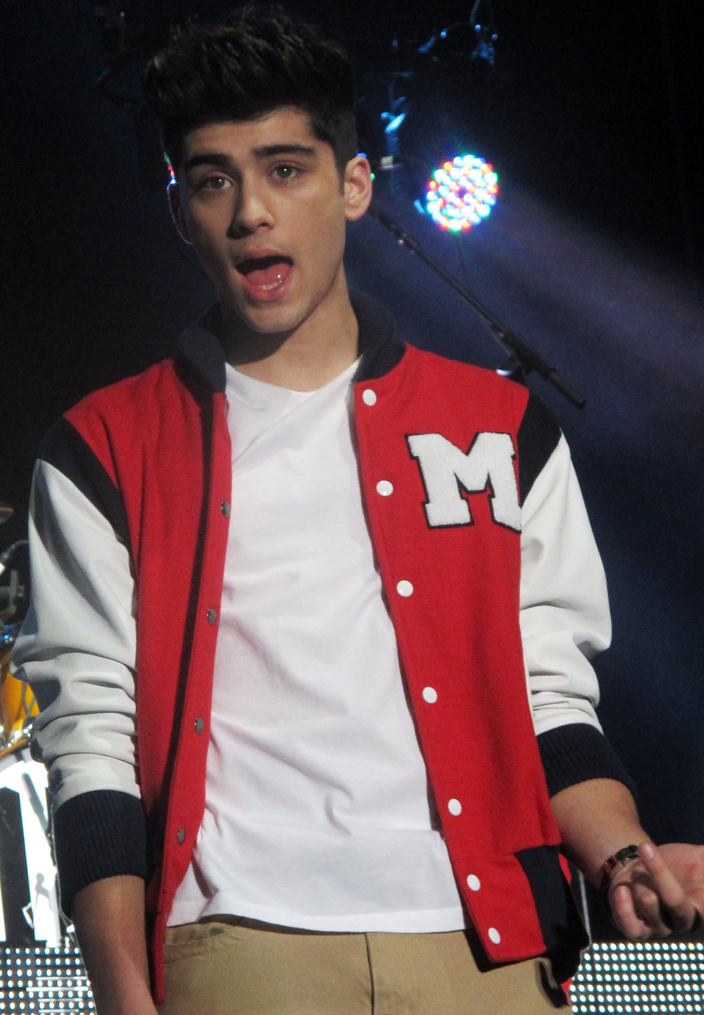 One Direction's Zayn Malik.